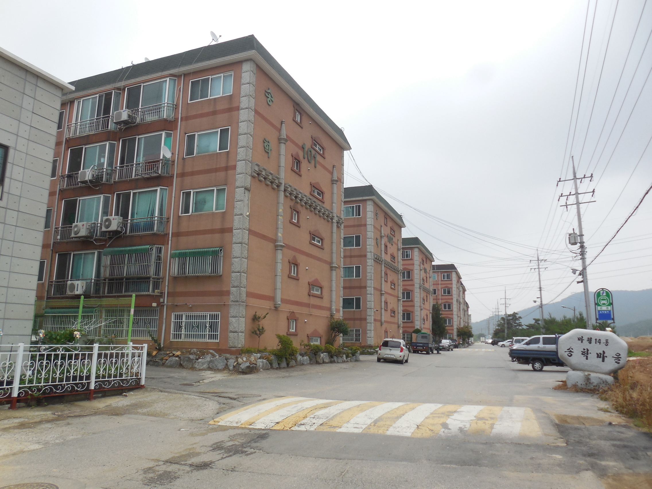 Korea National Railroad Suryeo Line Mapyeong Station (demolished).